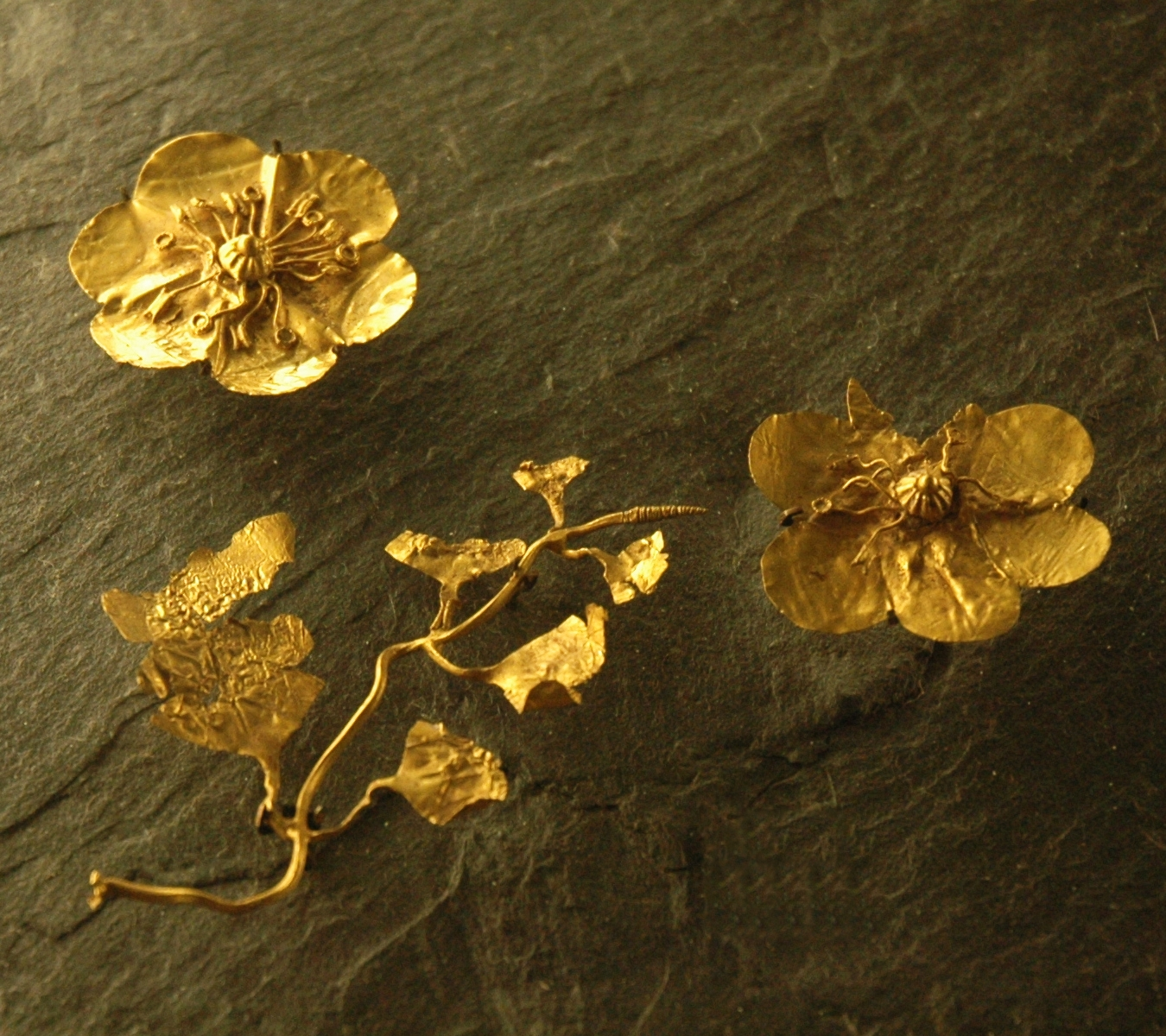 Funerary diadem, Greek world.